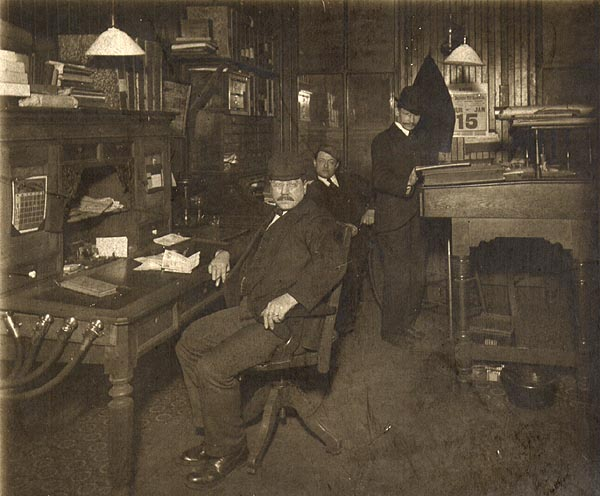 Speaking tubes hang off the end of a desk in this 1900s business office.